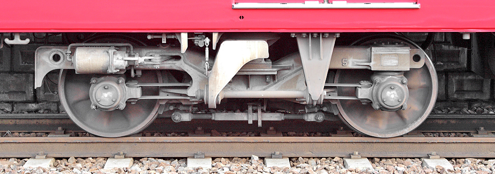 Sumitomo Metal Industries type FS-521A bogie truck of Meitetsu 6500 series ( Mo 6567 )